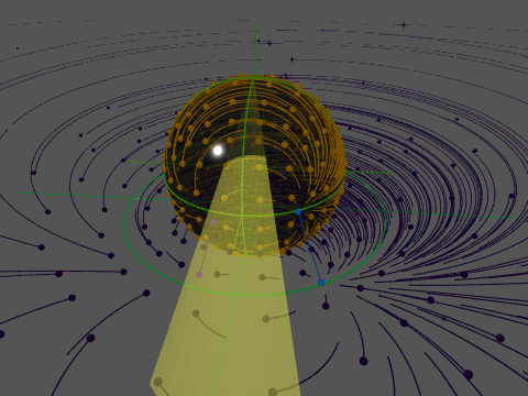 Mobius transformation, showing stereographic projection between plane and sphere. Generated with POVRAY. Povray file created with a java program. Donated to the Public Domain.